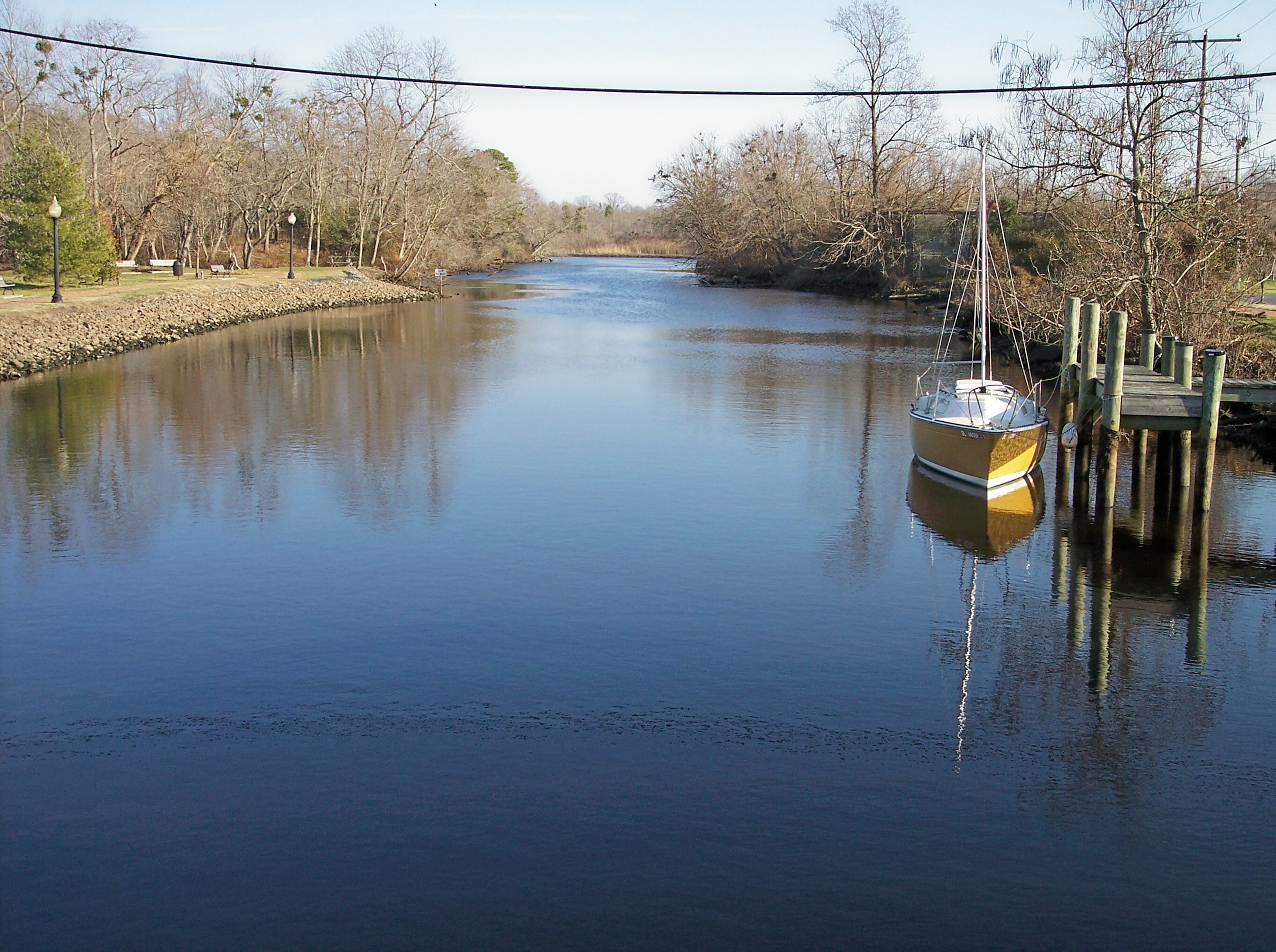 The Broadkill River in Milton, Delaware, as viewed downstream